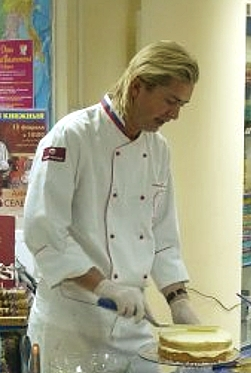 Alexandr Seleznev, russian confectioner